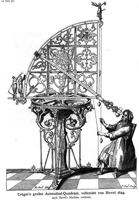 Hevelius' quadrant. German subtitle says (Peter) Crüger's large azimuthal quadrant, completed by Hevel, according to Hevel's Machina coelestis